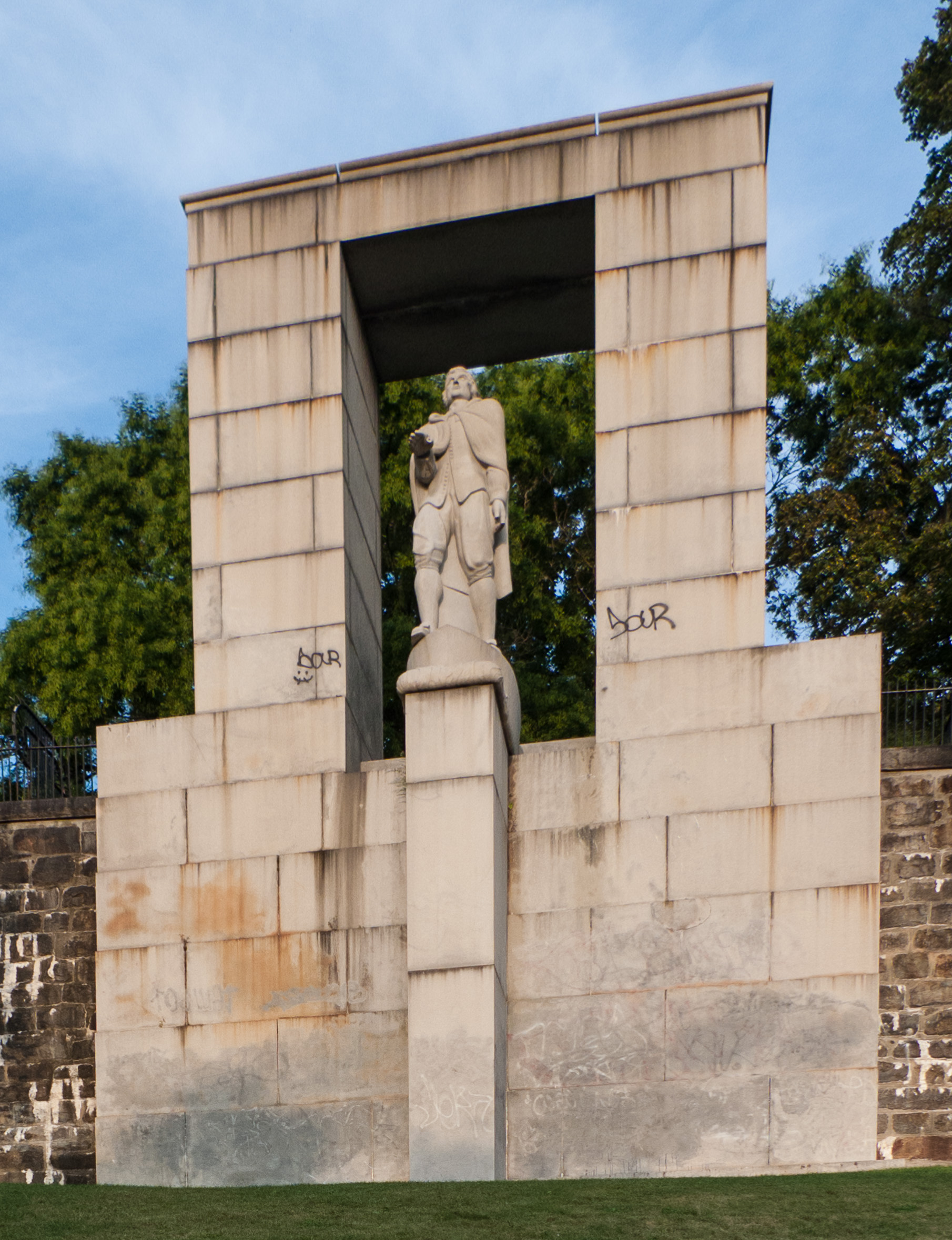 Statue of Roger Williams at Prospect Terrace Park, viewed from the "other" side, below the park.